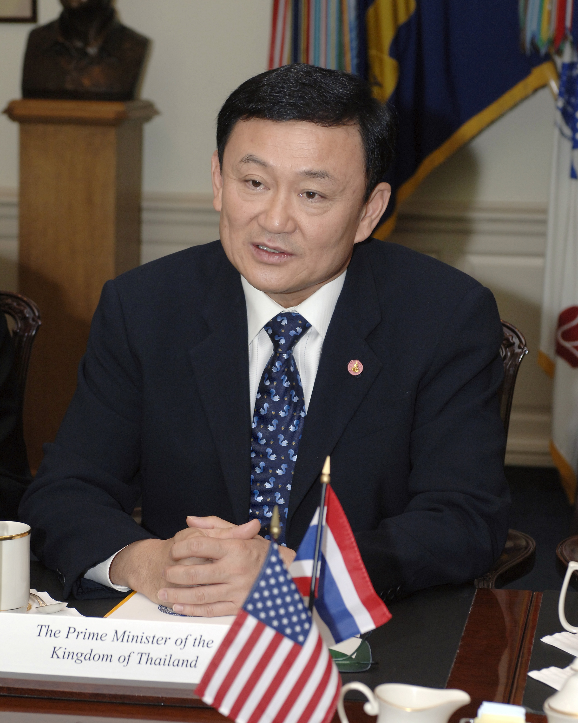 Thailand's Prime Minister Thaksin Shinawatra in a meeting at the Pentagon.